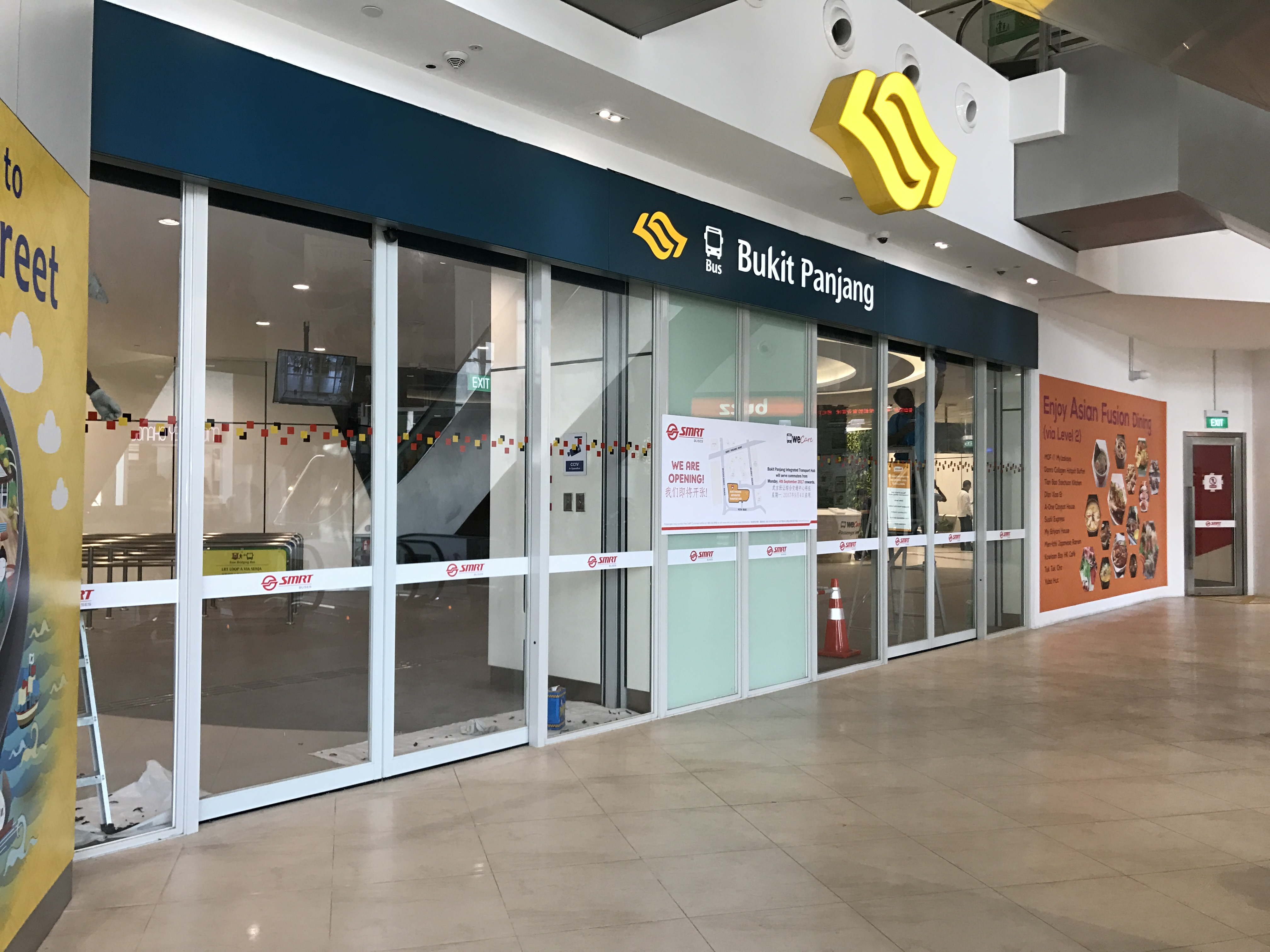 Bukit Panjang Bus Interchange (BPITH) Before Opening on the 4 September 2017.